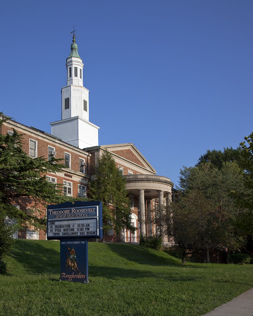 Theodore Roosevelt High School, 13th St. in upper NW, Washington, D.C., 2010. Carol M. Highsmith Collection, Library of Congress LC-DIG-highsm- 09997